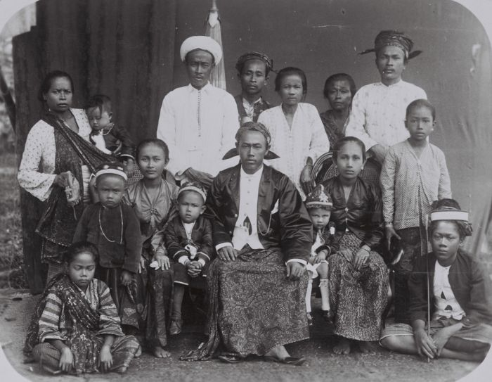 Portrait of a Javanese civil servant and his family from Blitar.